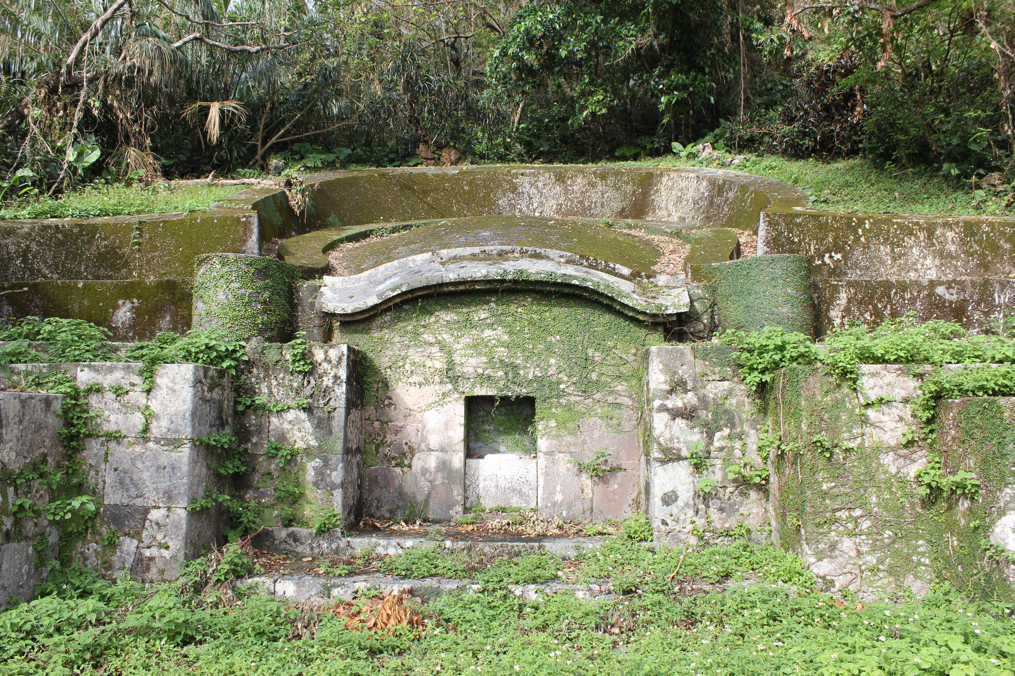 The Tomb of Ginowan Udun, Naha, Okinawa, Japan